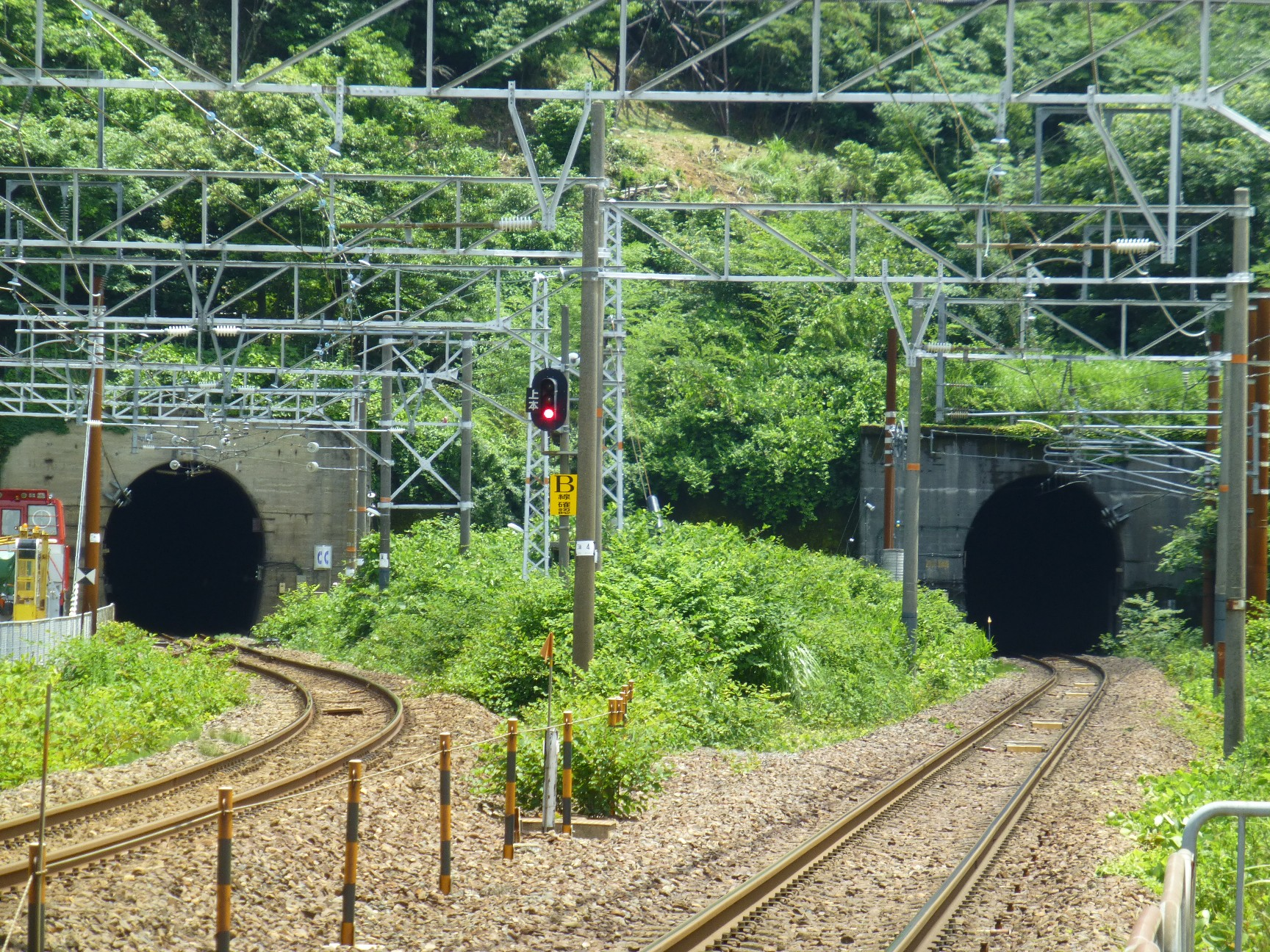 Portals of Fukasaka tunnel (left) and Shin-Fukasaka tunnel (right) on Hokuriku main line. Photo from Shin-Hikida railway station. The left tunnel is for southbound (outgoing) traffic and the right tunnel is for northbound (incoming) traffic.